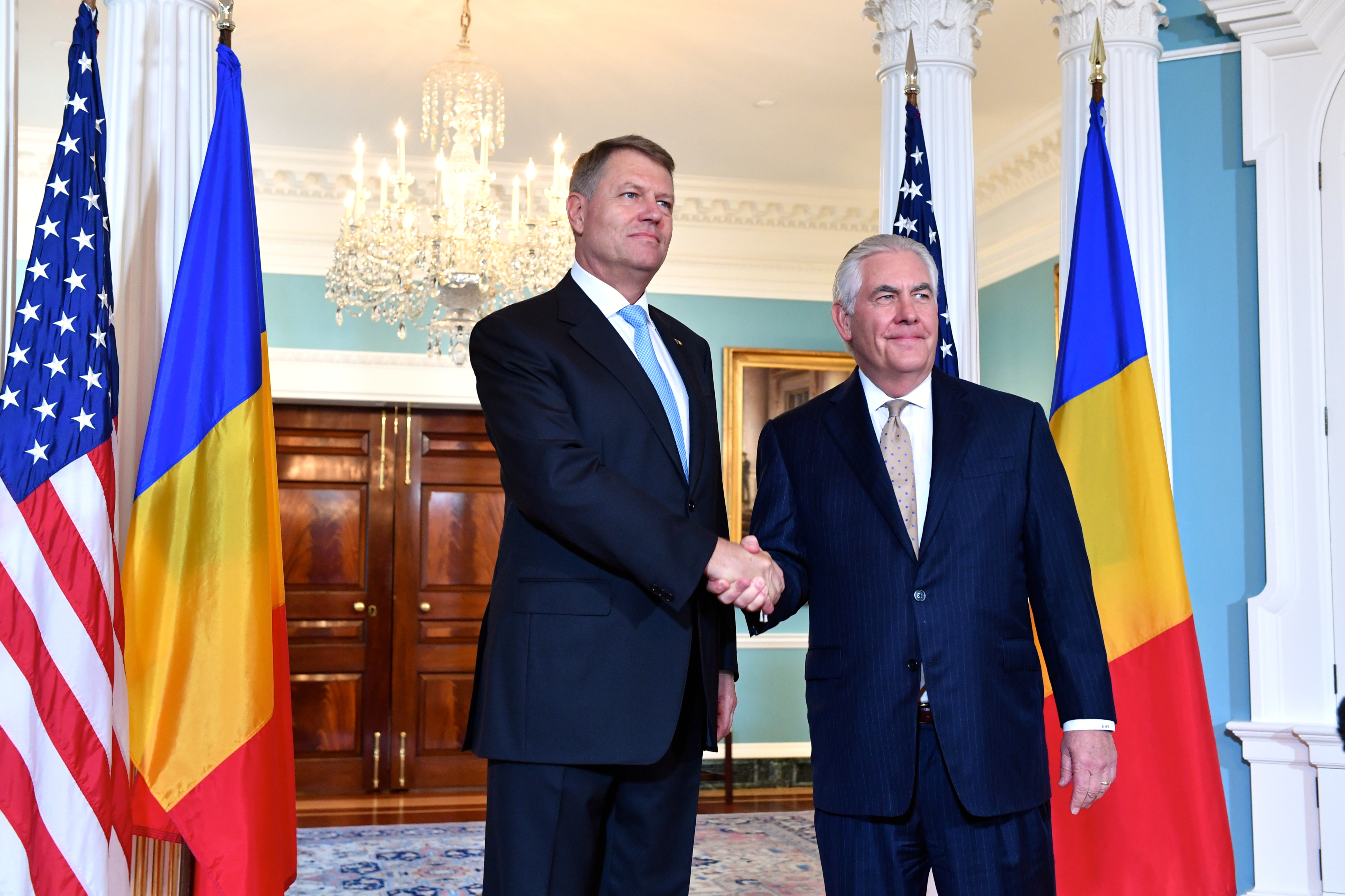 U.S. Secretary of State Rex Tillerson and Romanian President Klaus Werner Iohannis before their bilateral meeting at the U.S. Department of State in Washington, D.C., on June 9, 2017. [State Department Photo/ Public Domain]